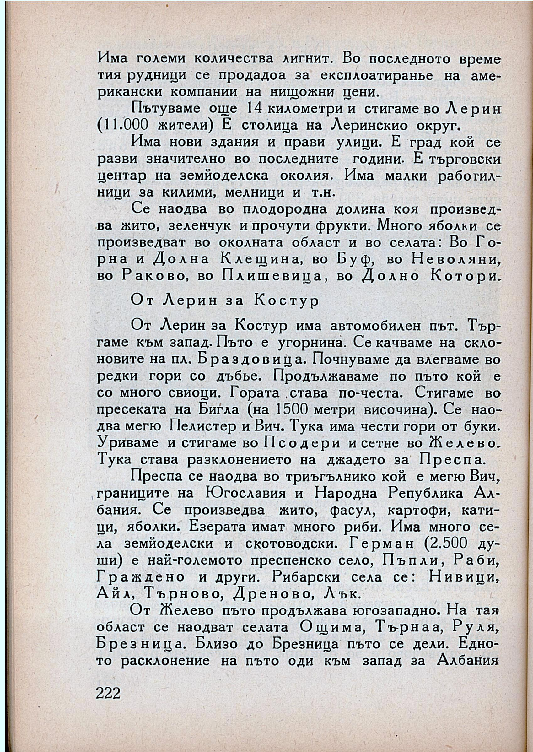 Geografiya na Gurtsiya Kochev et al random page1